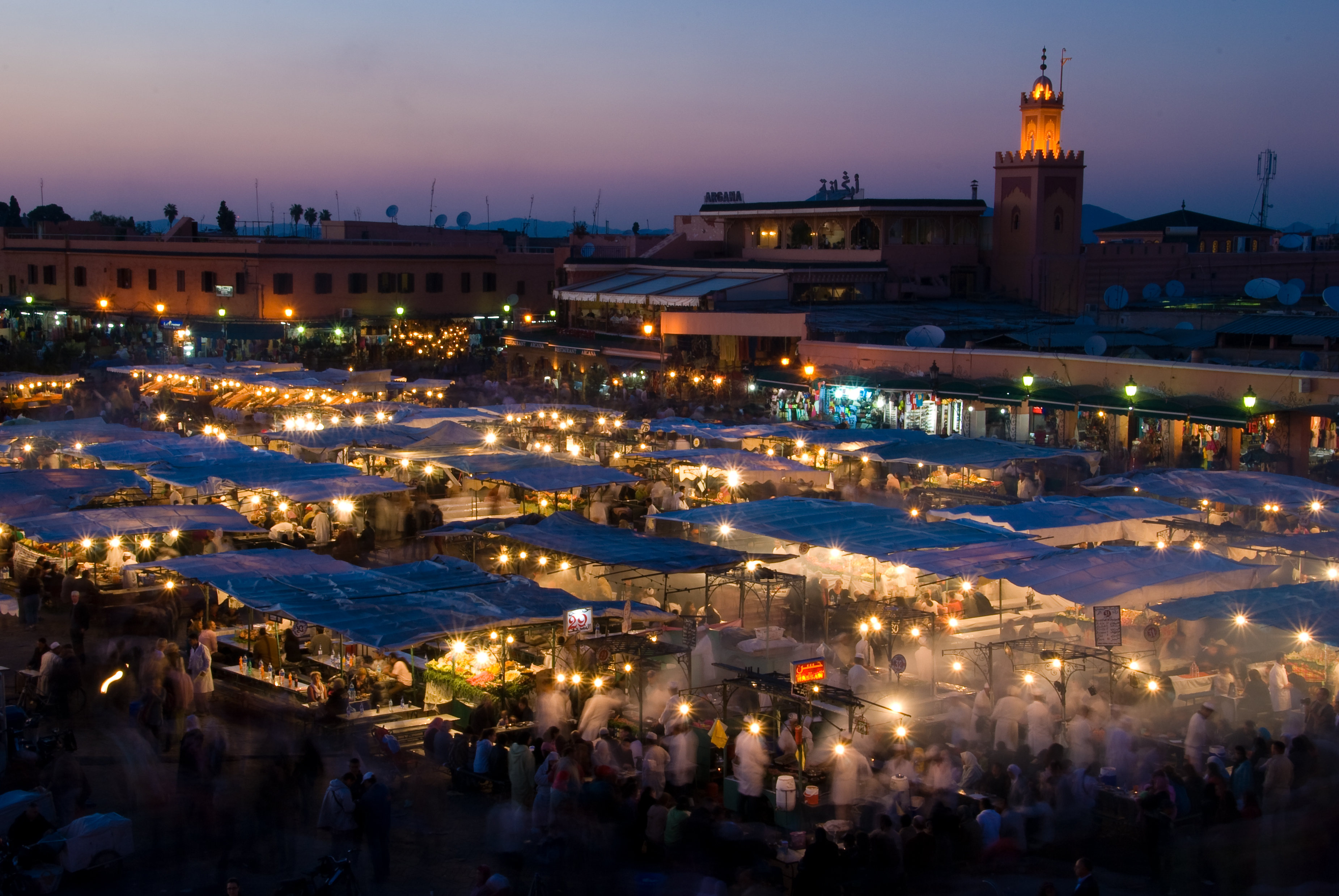 The whole set from Morocco